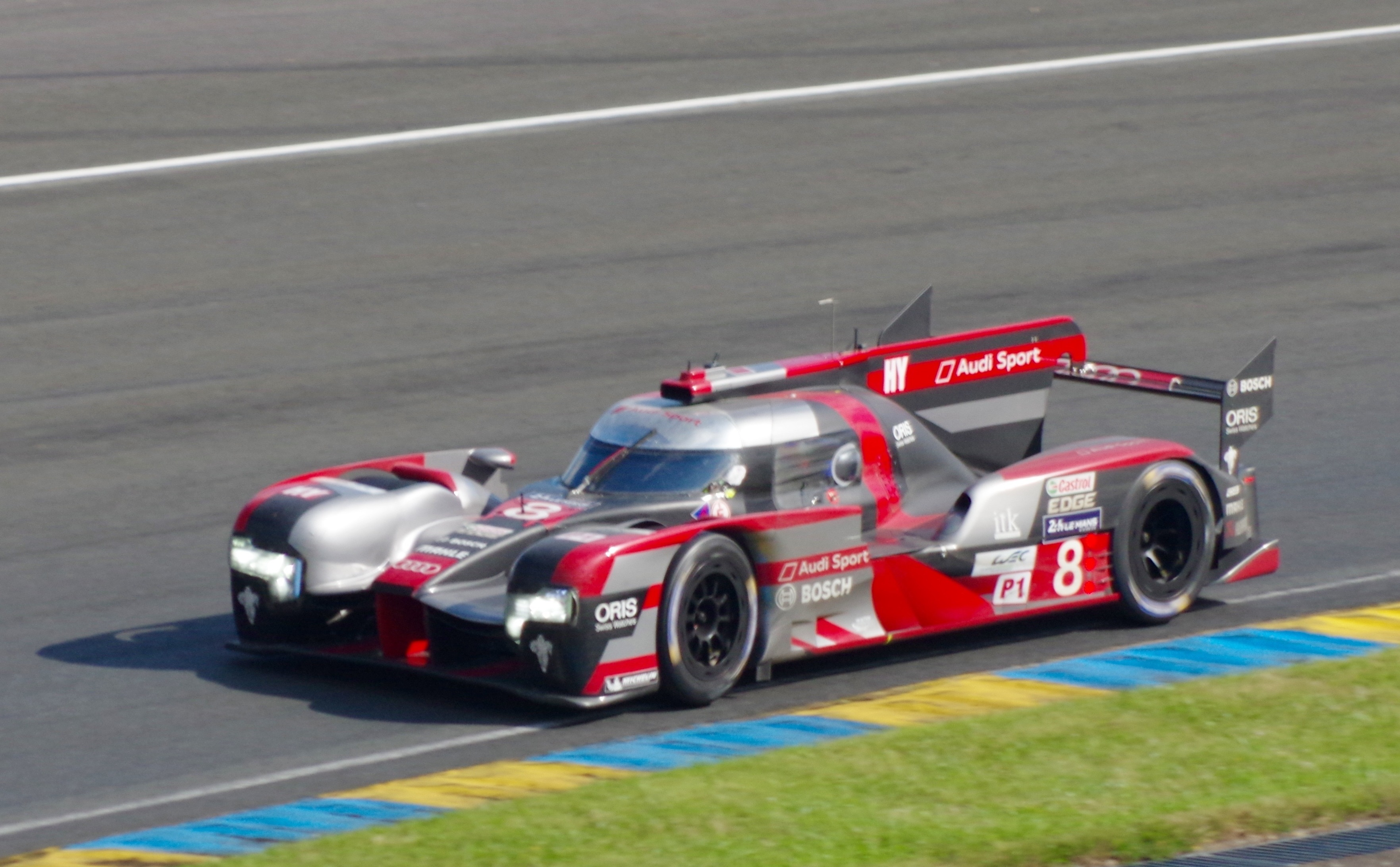 The No. 8 low drag Audi R18 that was driven by Brazilian Lucas di Grassi, Frenchman Loic Duval and Brit Oliver Jarvis at the 2016 24 Hours of Le Mans